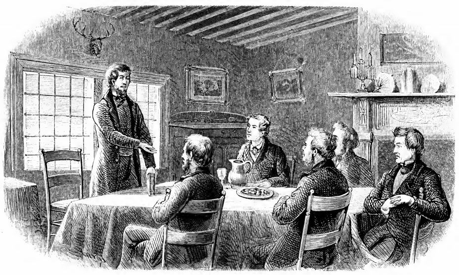 The organization of the Mormon Church in the Peter Whitmer log cabin, depicting Joseph Smith, Oliver Cowdery, Hyrum Smith, Peter Witmer Jr., Samuel H. Smith, and David Whitmer.